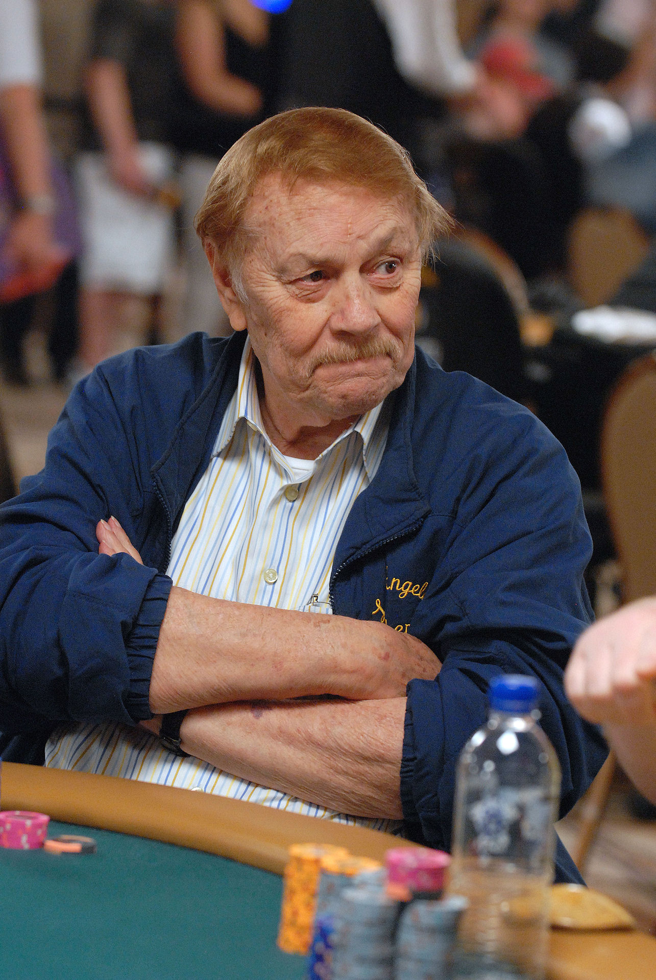 Jerry Buss (LA Lakers owner) playing at the World Series of Poker